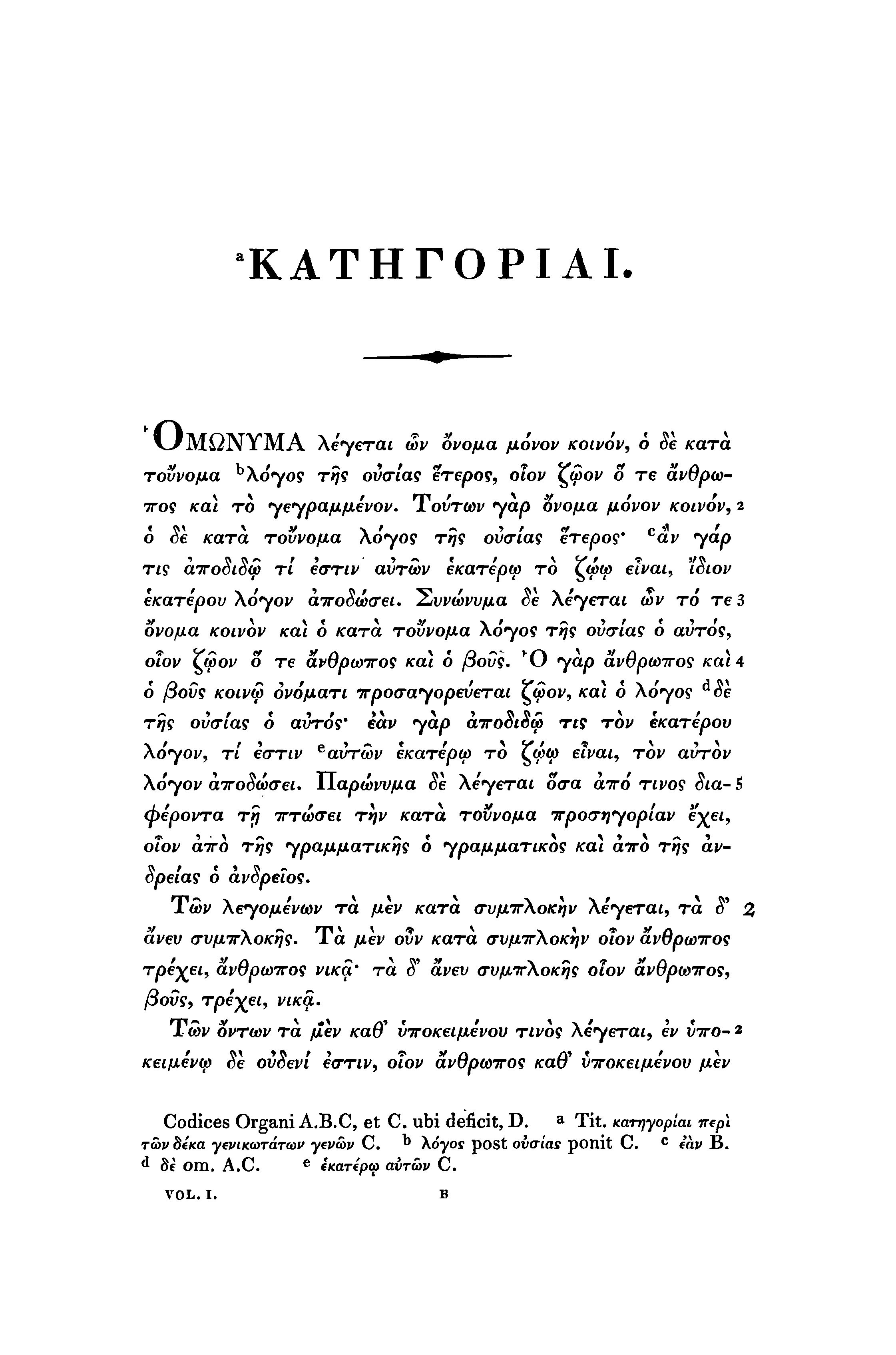 Aristotle: Categoriae, first page in Immanuel Bekker's edition, 1837.